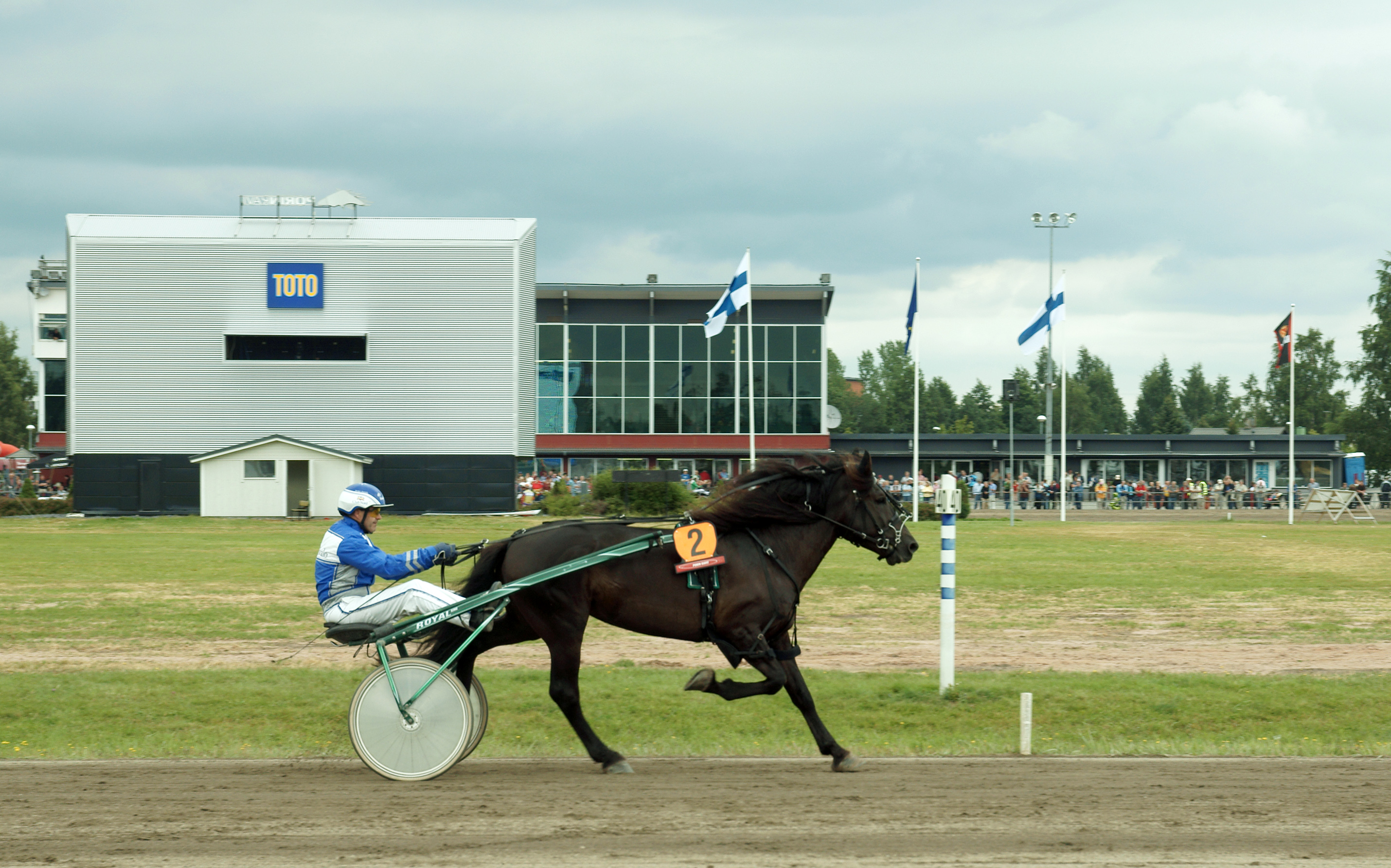 Jarmo Saarela harnessing Murron Mortti in Pori harness racing track.